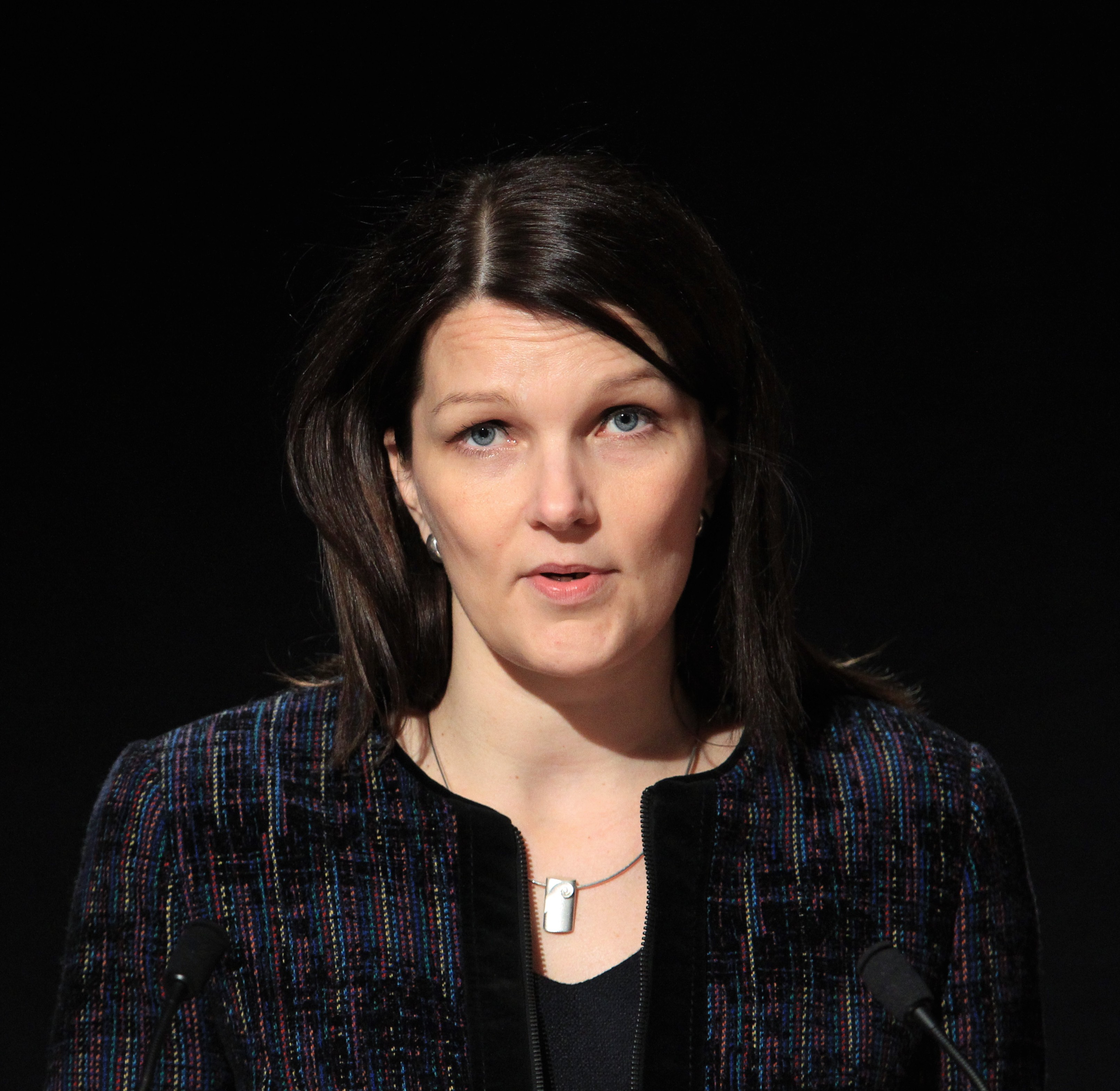 Mari Kiviniemi, Finnish politician